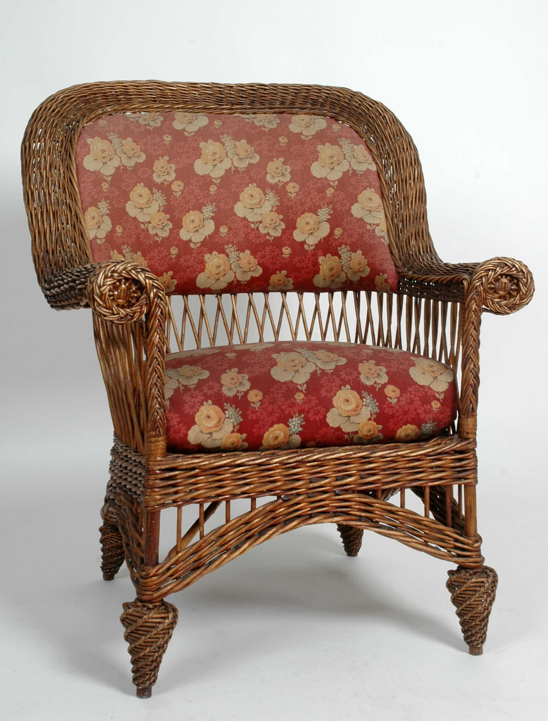 A wicker chair from the Norwegian dramatist and author Henrik Ibsen's home. Owned by Norsk Folkemuseum